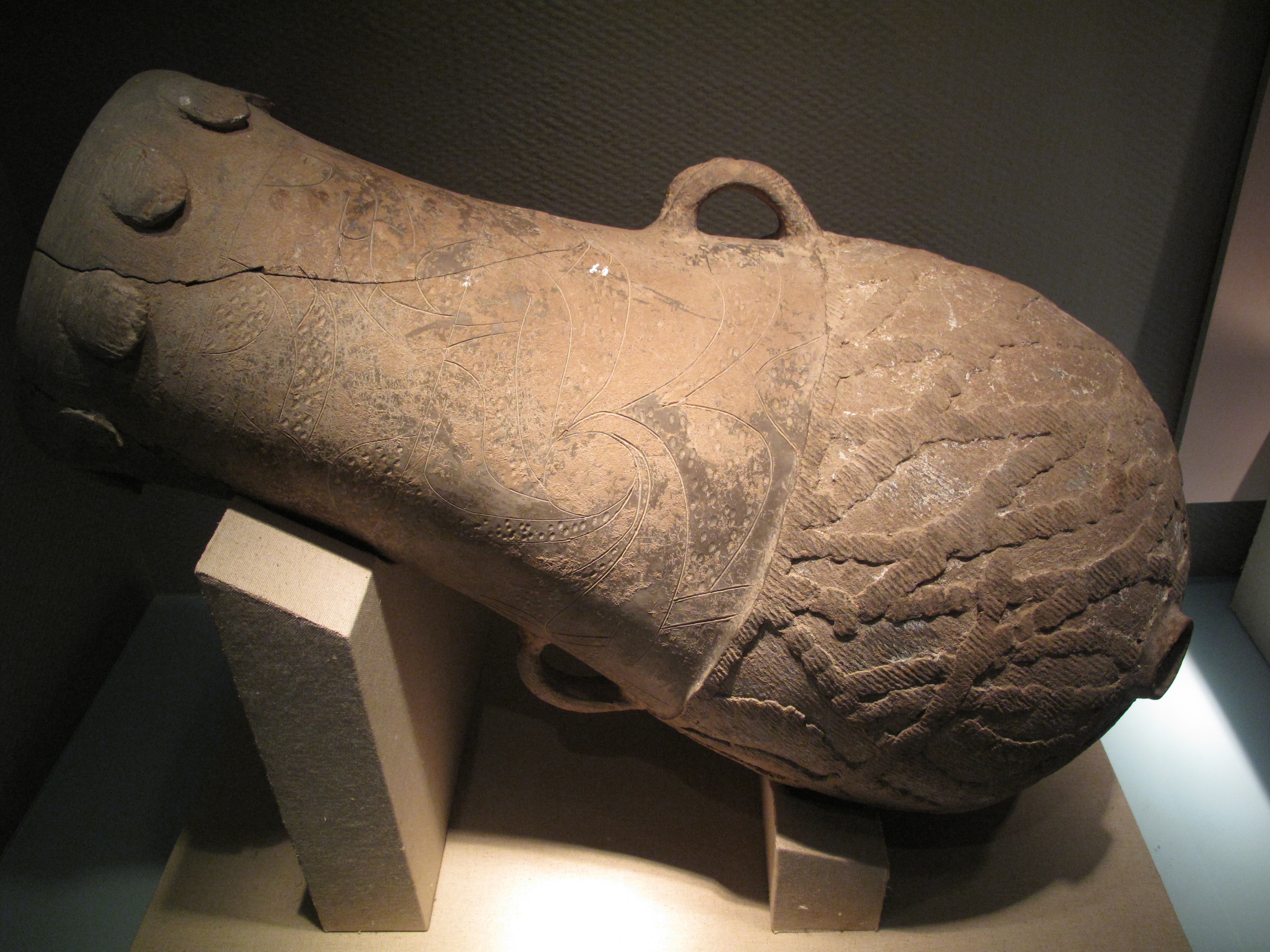 Pottery Drum, ca. 2500 BC. Shanxi Museum Noticeable features of this very early drum include its shape; its handles; the irregular, net-like, raised pattern on its lower bell; the small rimmed collar at the base of the instrument; incised reliefs on its body and neck; and bosses at the top to attach the drumhead. To make the drumhead, an animal skin was stretched by ropes or sinews and attached to the circular bosses.